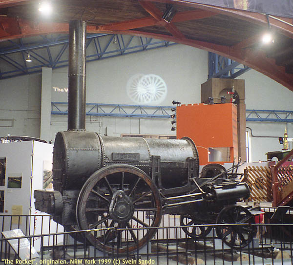 Robert Stephenson's Rocket in National Railway Museum, York Norsk (bokmål): Robert Stephensons Rocket på National Railway Museum, York